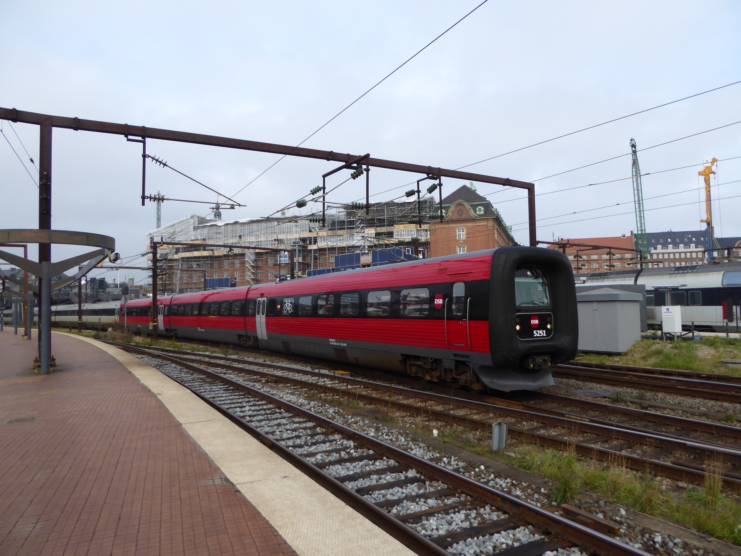 The diesel multiple unit DSB IC3 51 at Københavns Hovedbanegård (Copenhagen Central Station). The train has just a new red design and was in Copenhagen for the first time after that. On the picture the train is departing towards Aalborg.